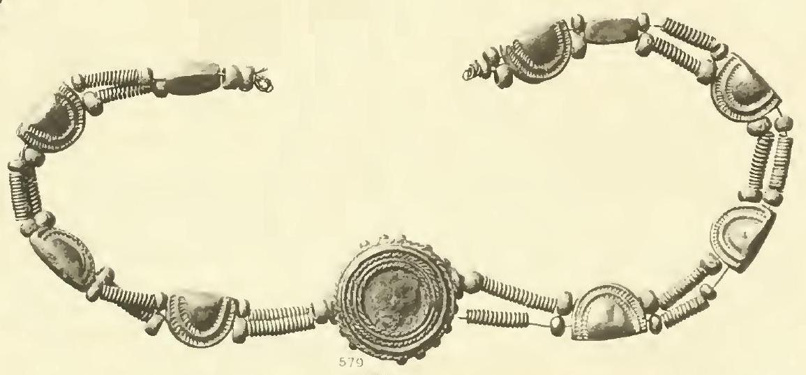 Gold Necklace.